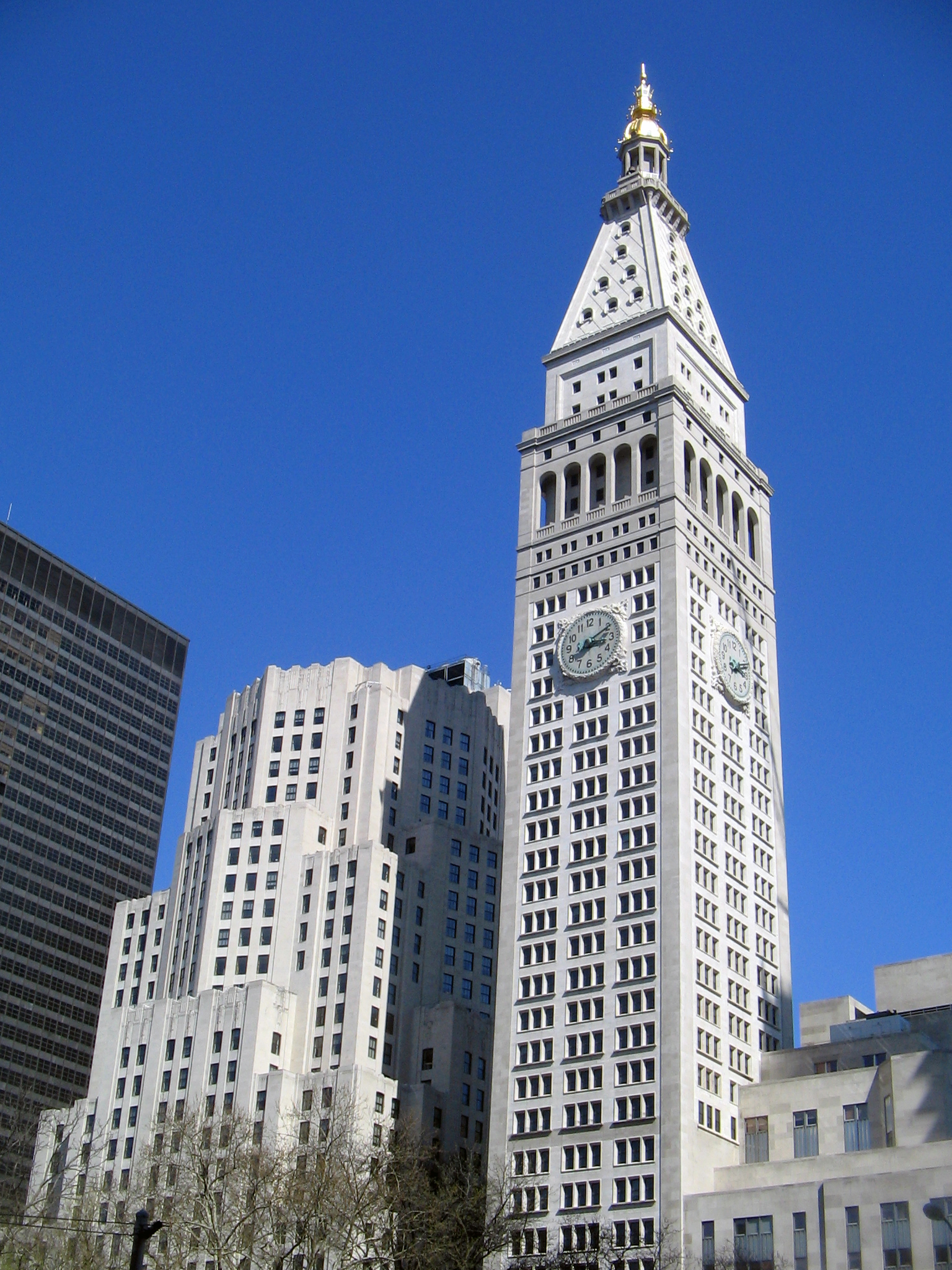 The Metropolitan Life Tower and the Metropolitan Life North Building on a sunny afternoon in April.